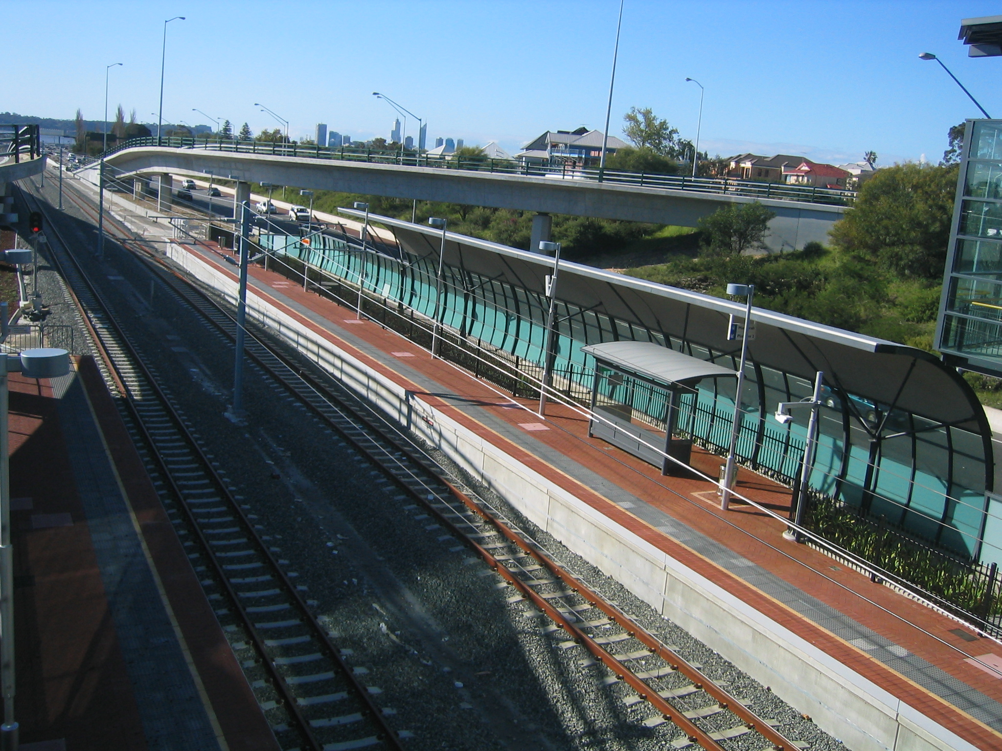 Transperth Canning Bridge Train Station